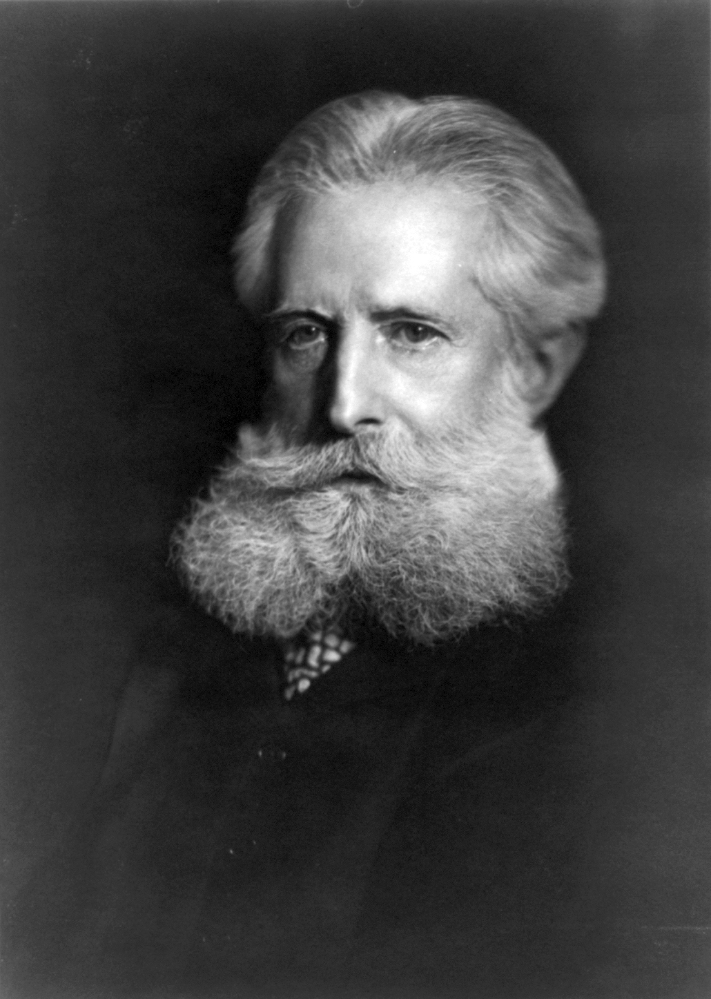 Edmund Clarence Stedman, bust portrait, facing left